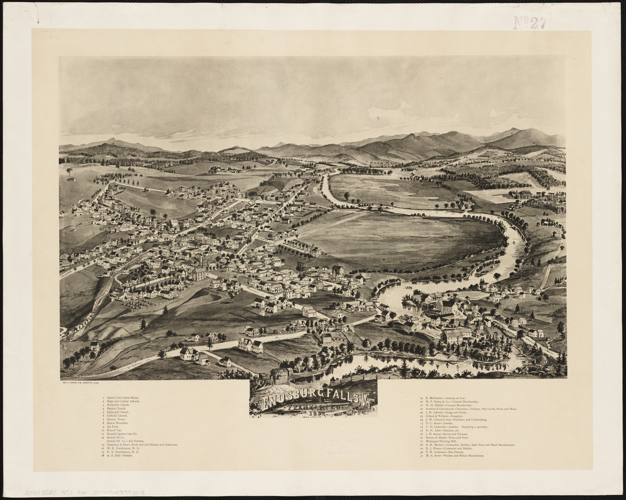 Zoom into this map at . Author: Norris, George E. Publisher: Geo. E. Norris Date: [1892] Location: Enosburg Falls (Vt.) Scale: Not drawn to scale. Call Number: G3754.E5A3 1892.N6